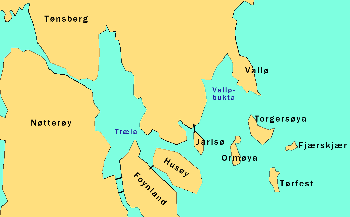 Islands in Tønsberg, Norway